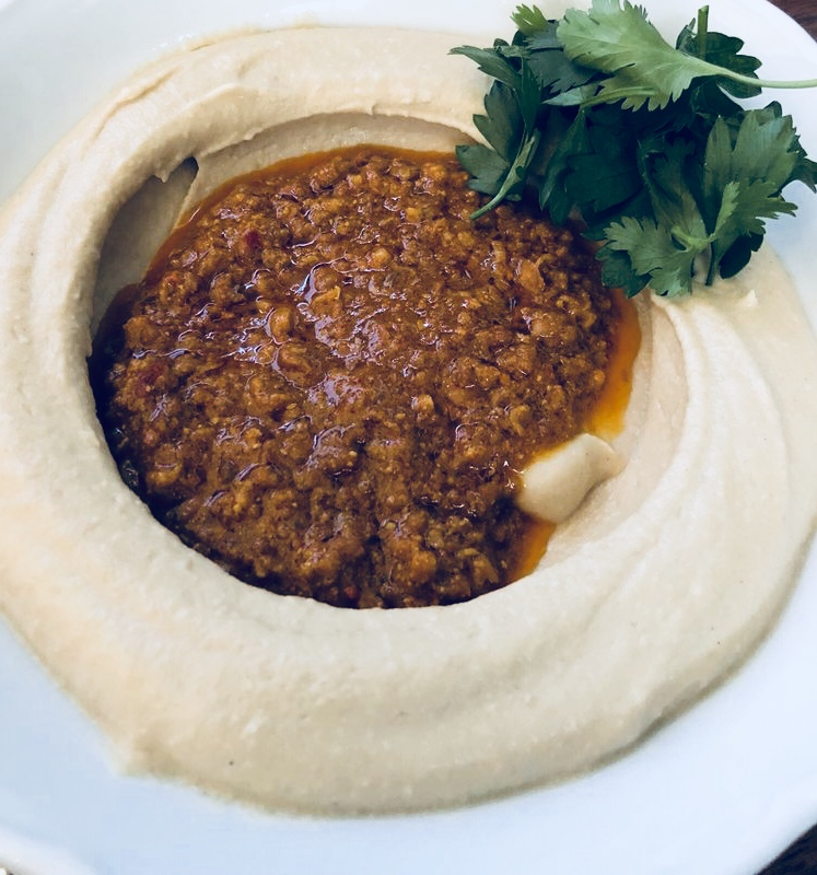 A photo of Israeli style hummus served with a duck nduja at Bavel, in the Arts District, Los Angeles, California.